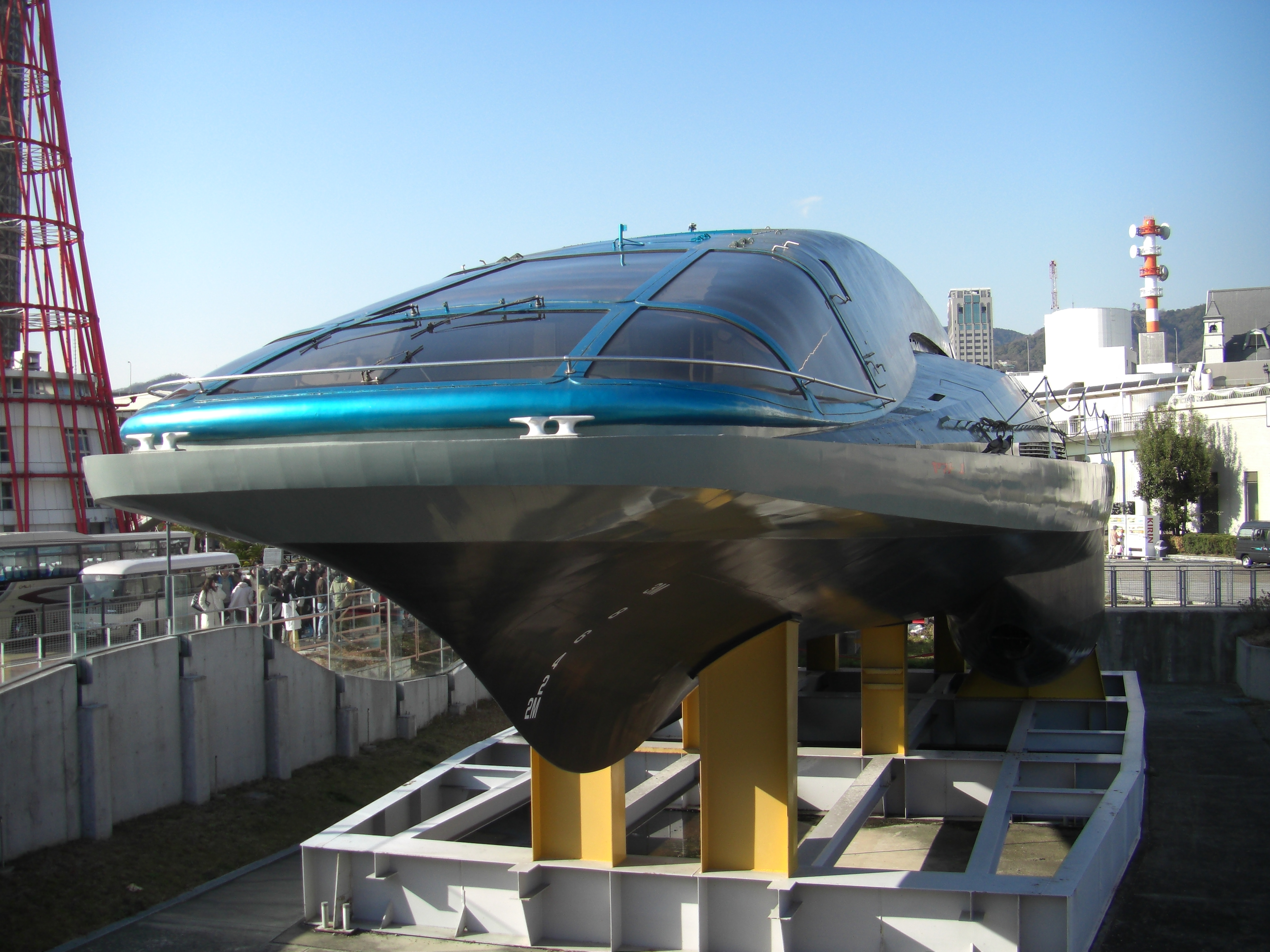 Yamato 1 on display in front of the Kobe Maritime Museum in Kobe, Hyogo, Japan. This is a Superconducting Electromagnetic Propulsion Boat.